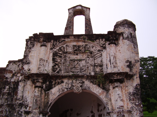 A Famosa fortress in Melaka. It was built by the Portuguese in the 16th century.